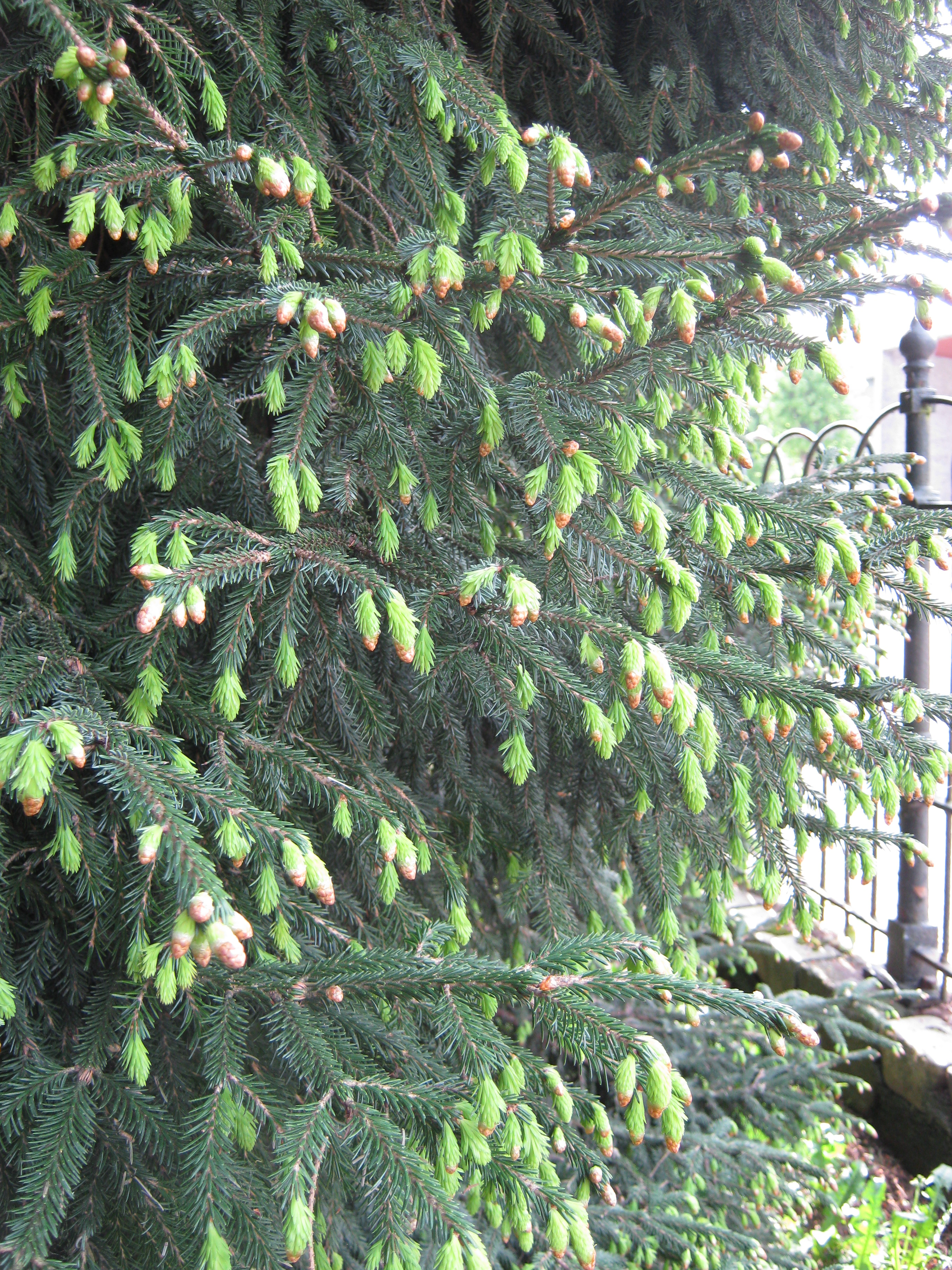 Close up of Picea likiangensis in spring, in botanical garden in Bergen, Norway